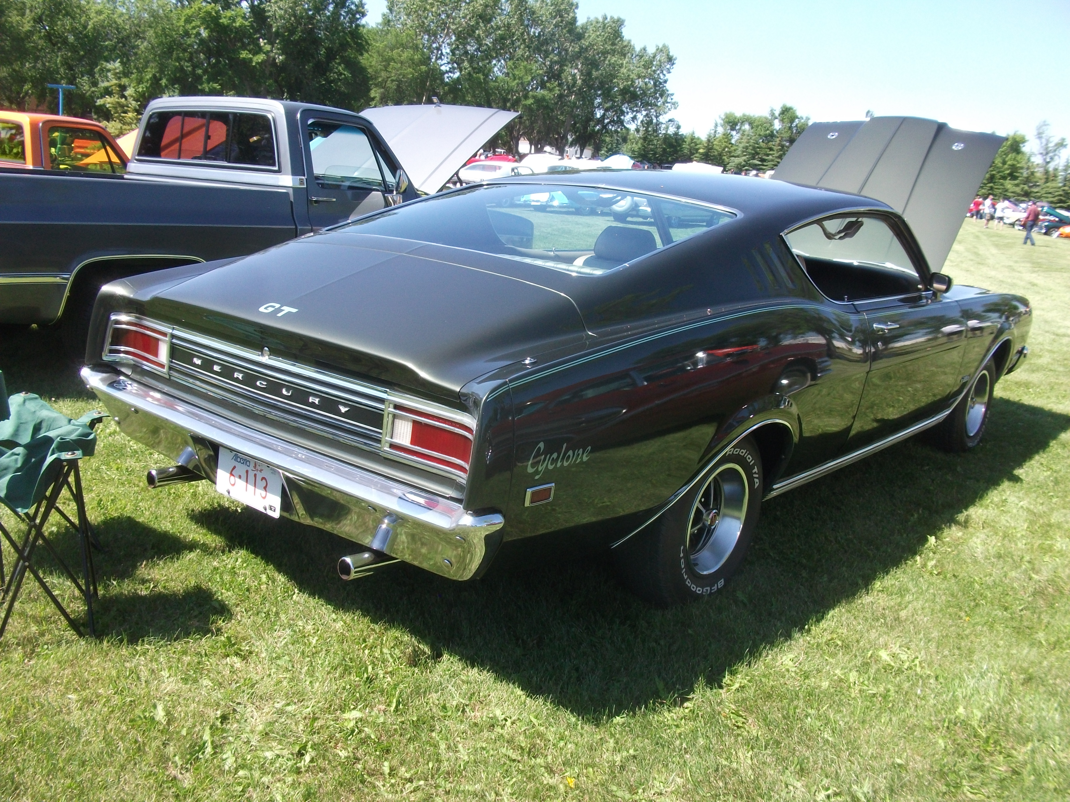 1969 Mercury Cyclone GT rear